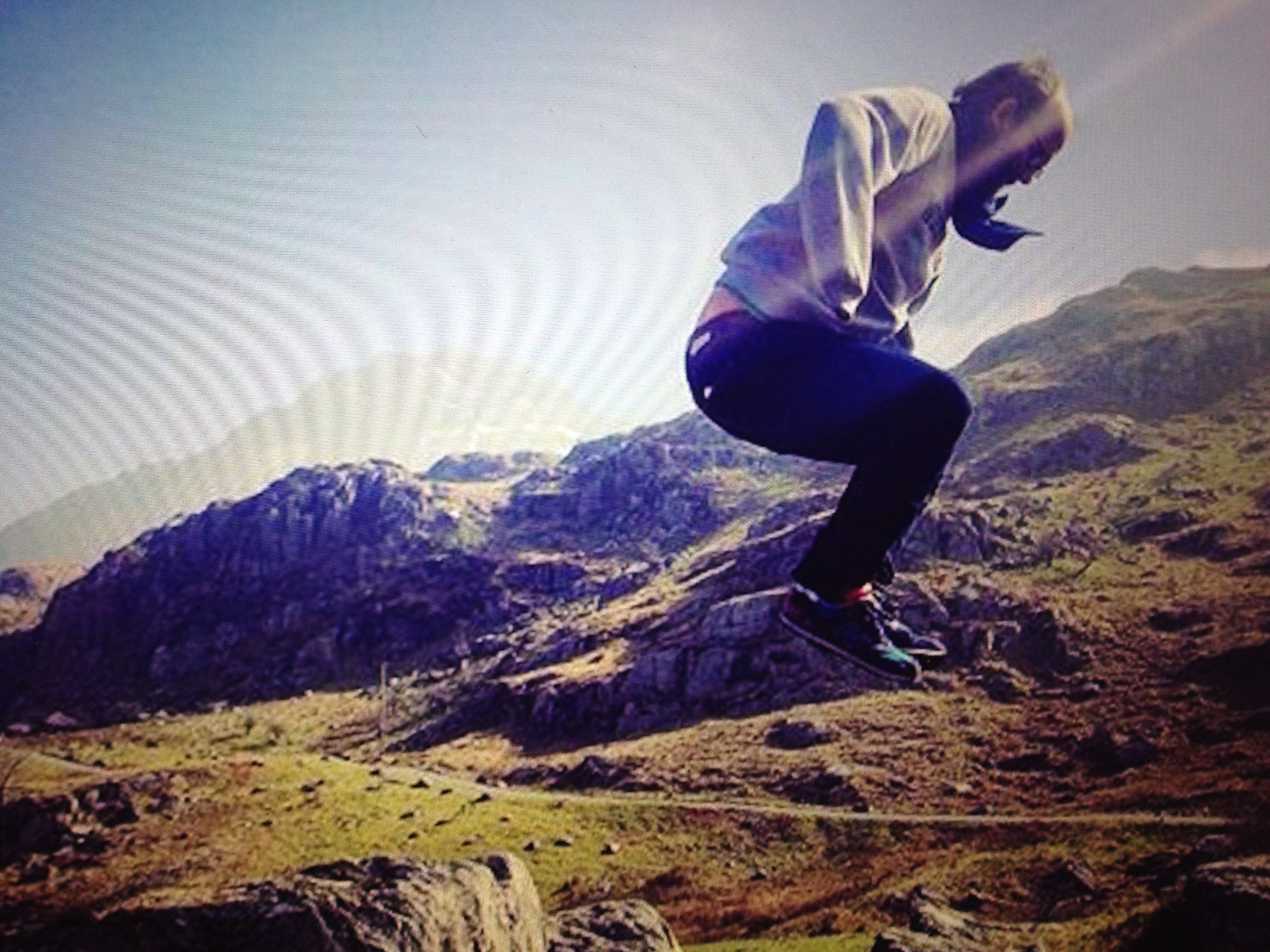 Daniel jumping in Snowdonia